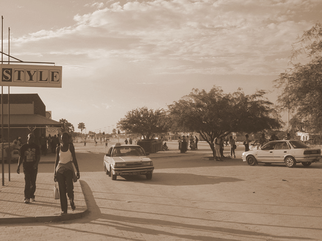 Shopping center(Additional description by User:JackyR ) Image used by Macvivo to illustrate Mabvuku.